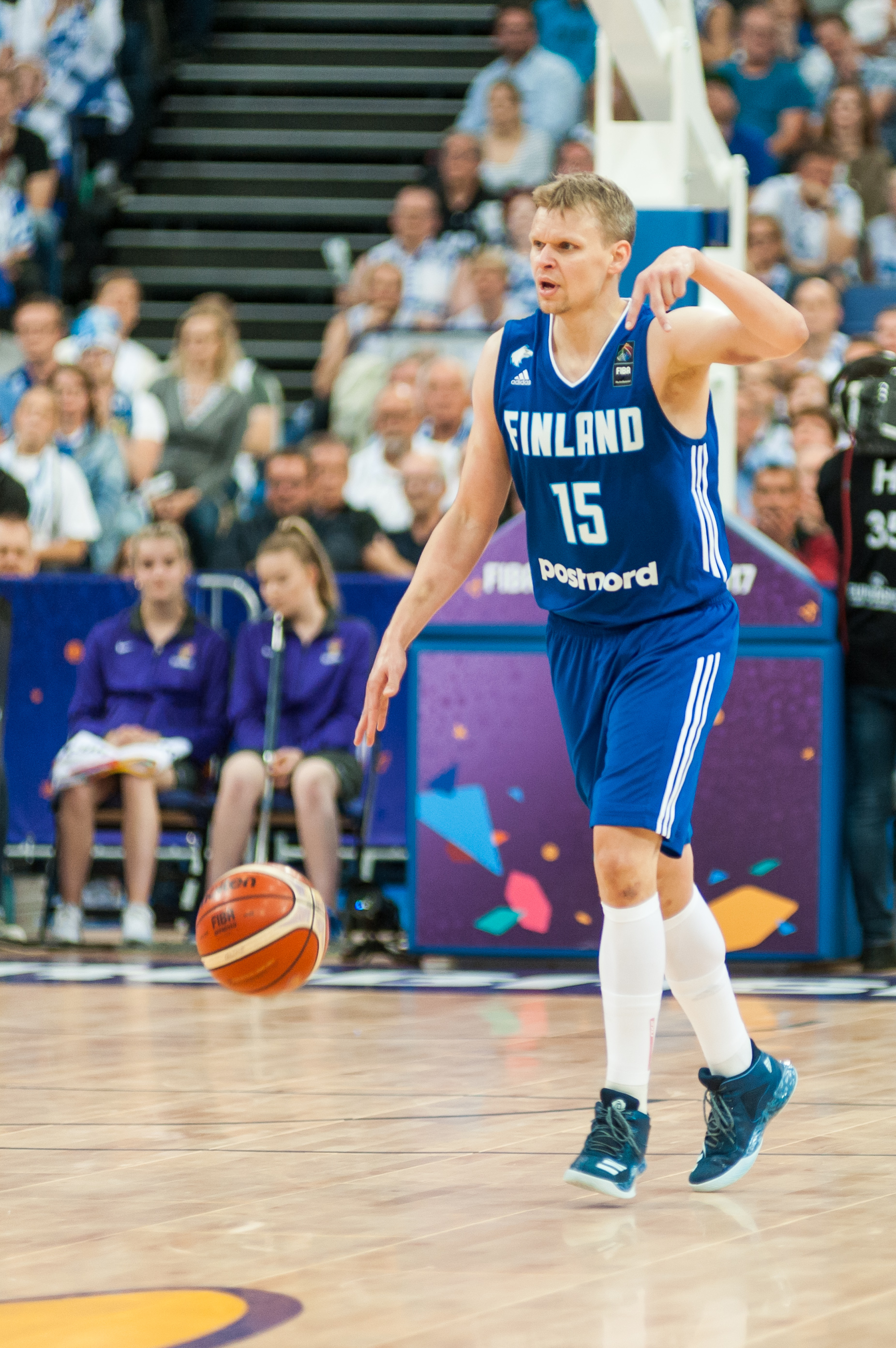 EuroBasket 2017 Group A game between Greece and Finland at Hartwall Arena in Helsinki, Finland.